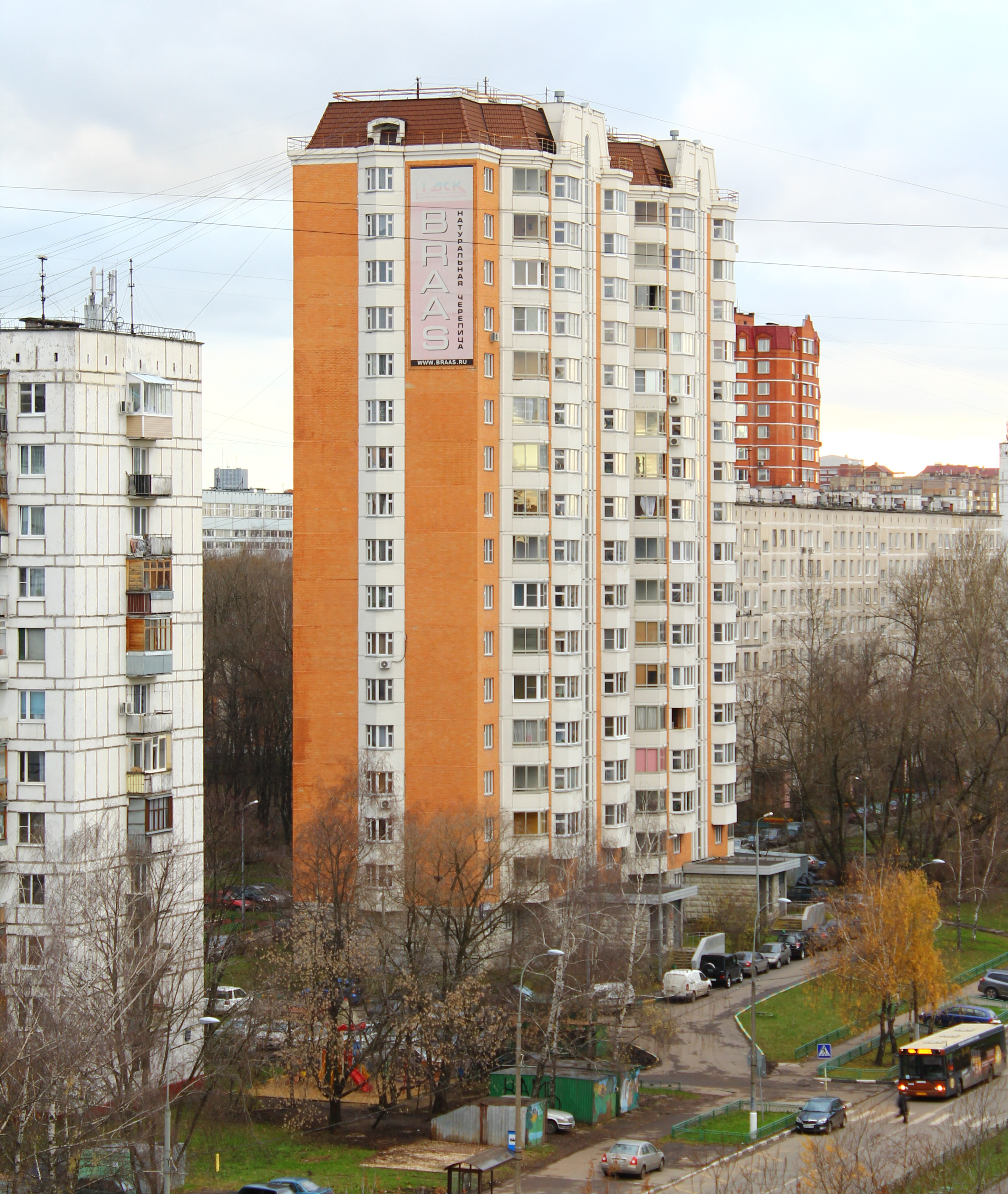 P44T (Commieblock series in Moscow) at Altayskaya Street.